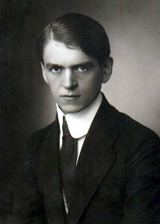 Kazys Binkis, Lithuanian poet, writer, journalistLietuvių: Kazys Binkis, Lietuvos poetas, rašytojas, žurnalistas, dramaturgas